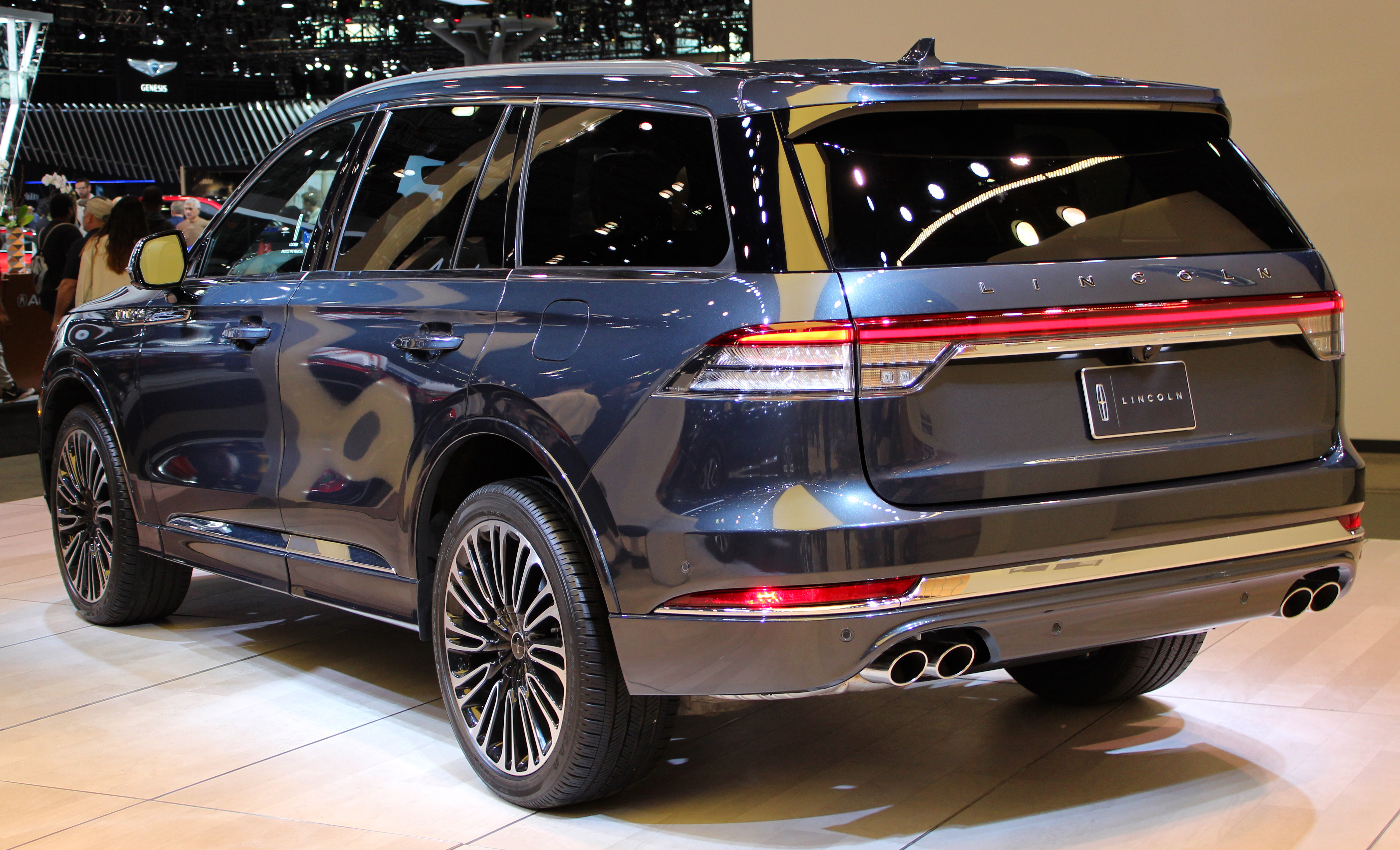 A 2020 Lincoln Aviator photographed during the 2019 New York International Auto Show, in Hudson Yards, Manhattan, NYC